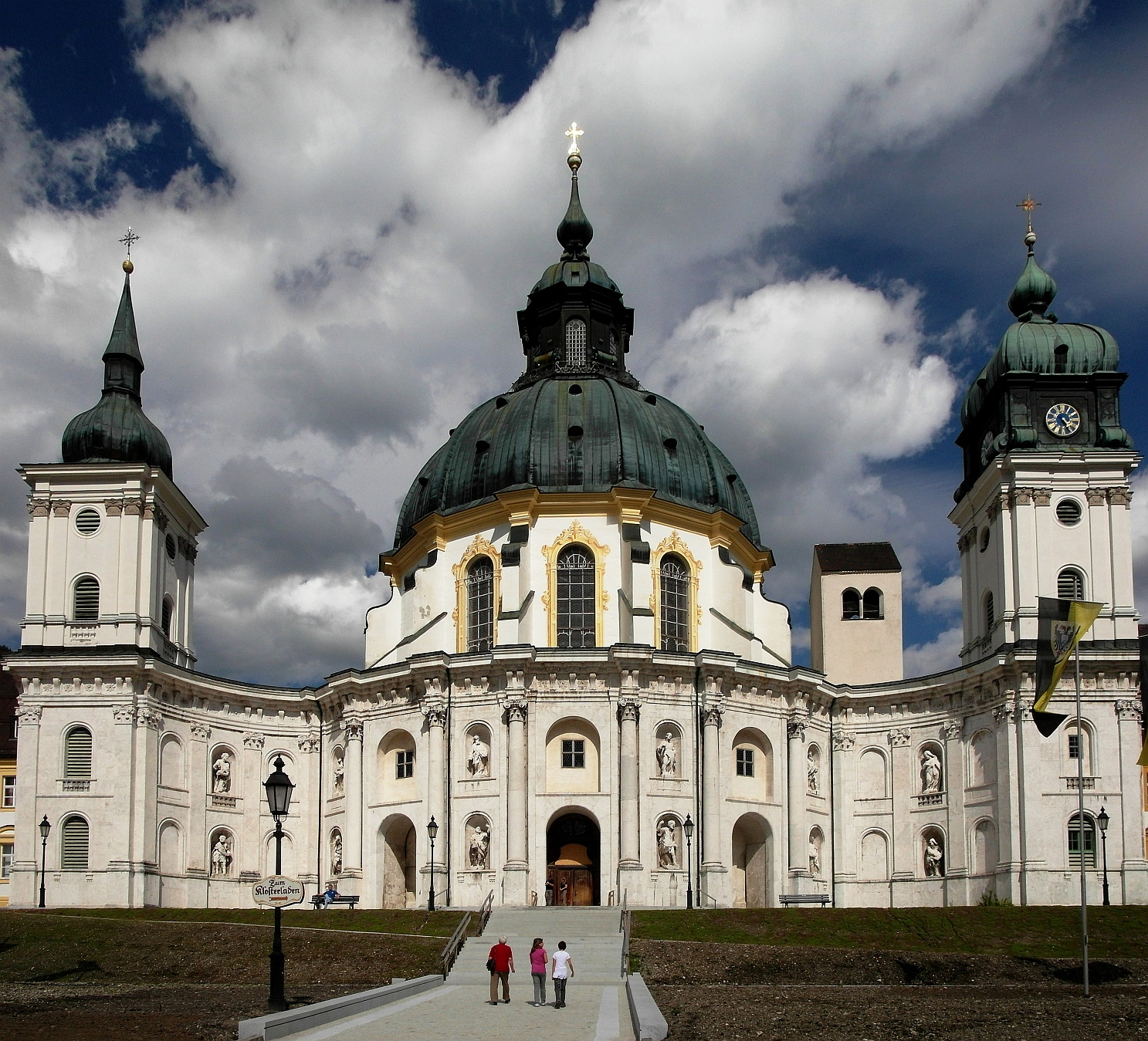 Facade of the Benedictine monastery church in Ettal, Bavaria, Germany